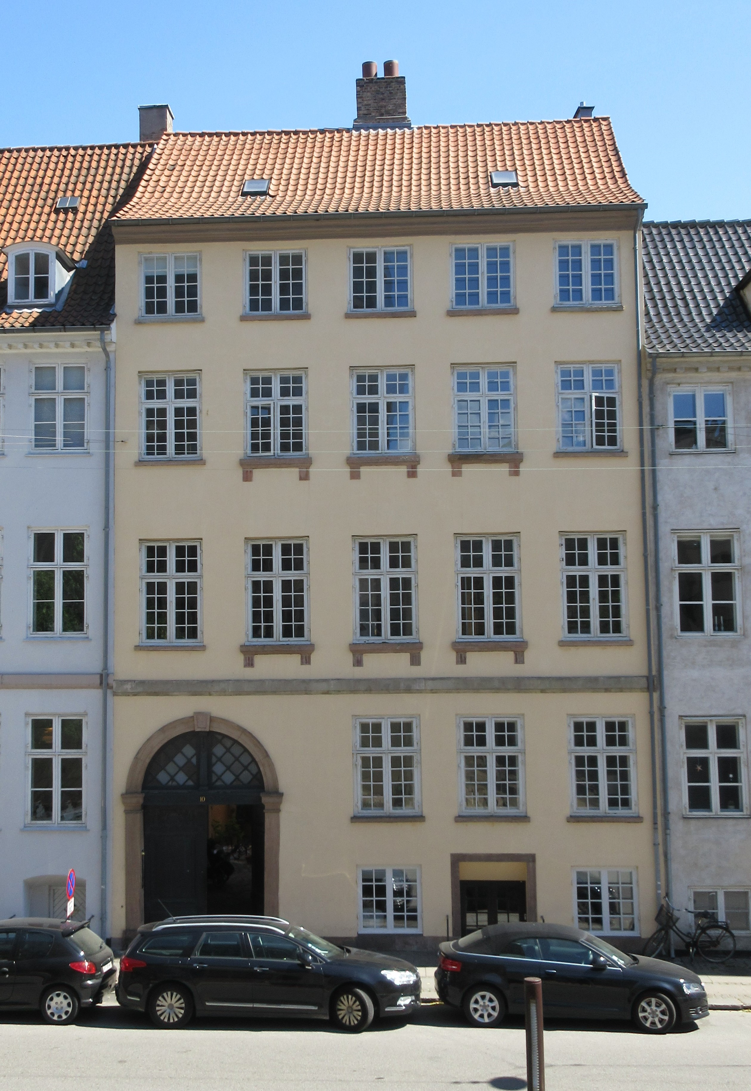 Schottmanns Gård in Christianshavn, Copenhagen, Denmark